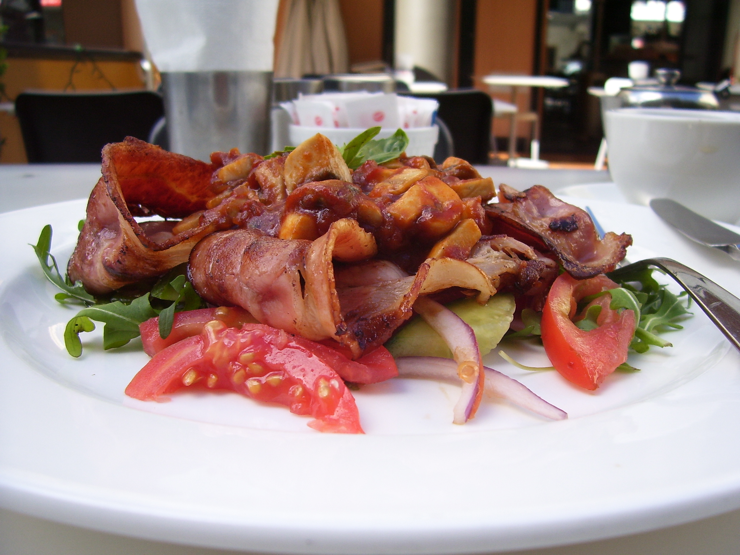 was delicious! Crispy bacon with a mushroom salsa sauce on a bed of fresh baby spinach salad with tomatoes and spanish onion